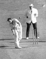 Bill Johnston bowling at the Melbourne Cricket Ground in 1955